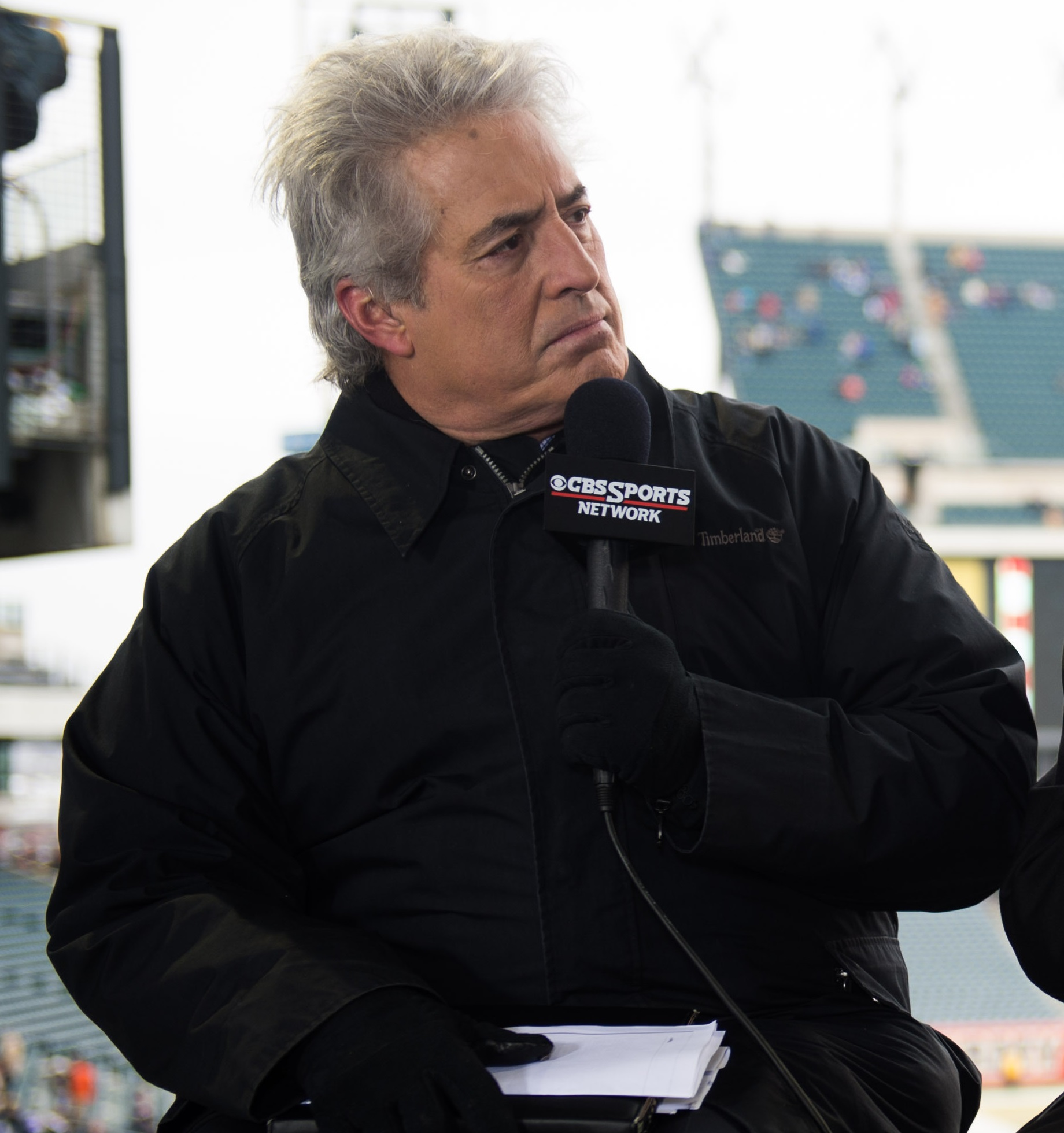 CBS football analysts Randy Cross (left) and Adam Zucker (middle) interview U.S. Army Chief of Staff Gen. Ray Odierno on their set at the Lincoln Financial Field before the 114th Army-Navy football game in Philadelphia, PA, Dec. 14, 2013. The Army-Navy game is an American college football rivalry between the United States Military Academy and the United States Naval Academy dating back to 1890. (U.S. Army photo by Staff Sgt. Steve Cortez/ Released)